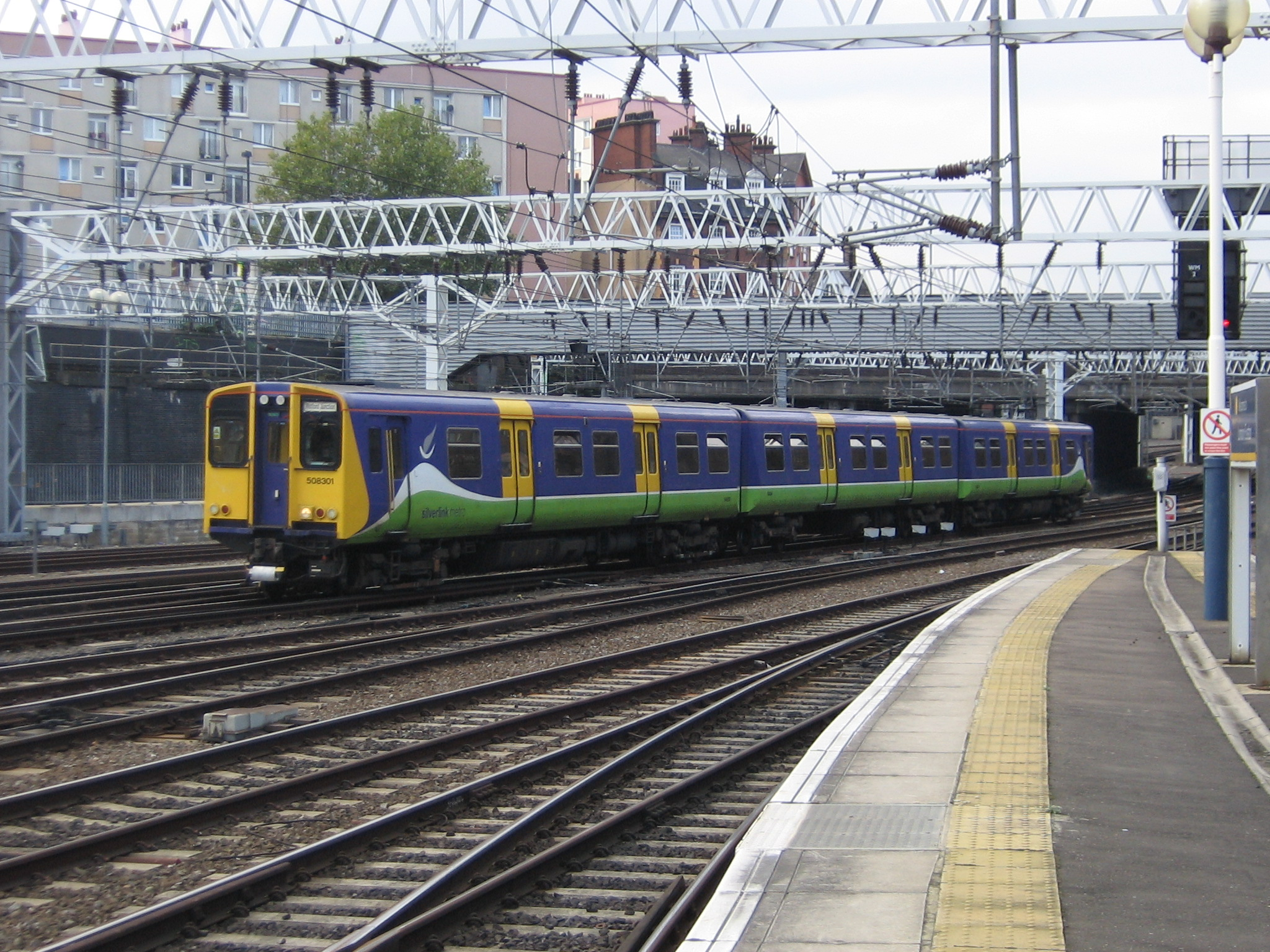 A 508 arriving in London Euston